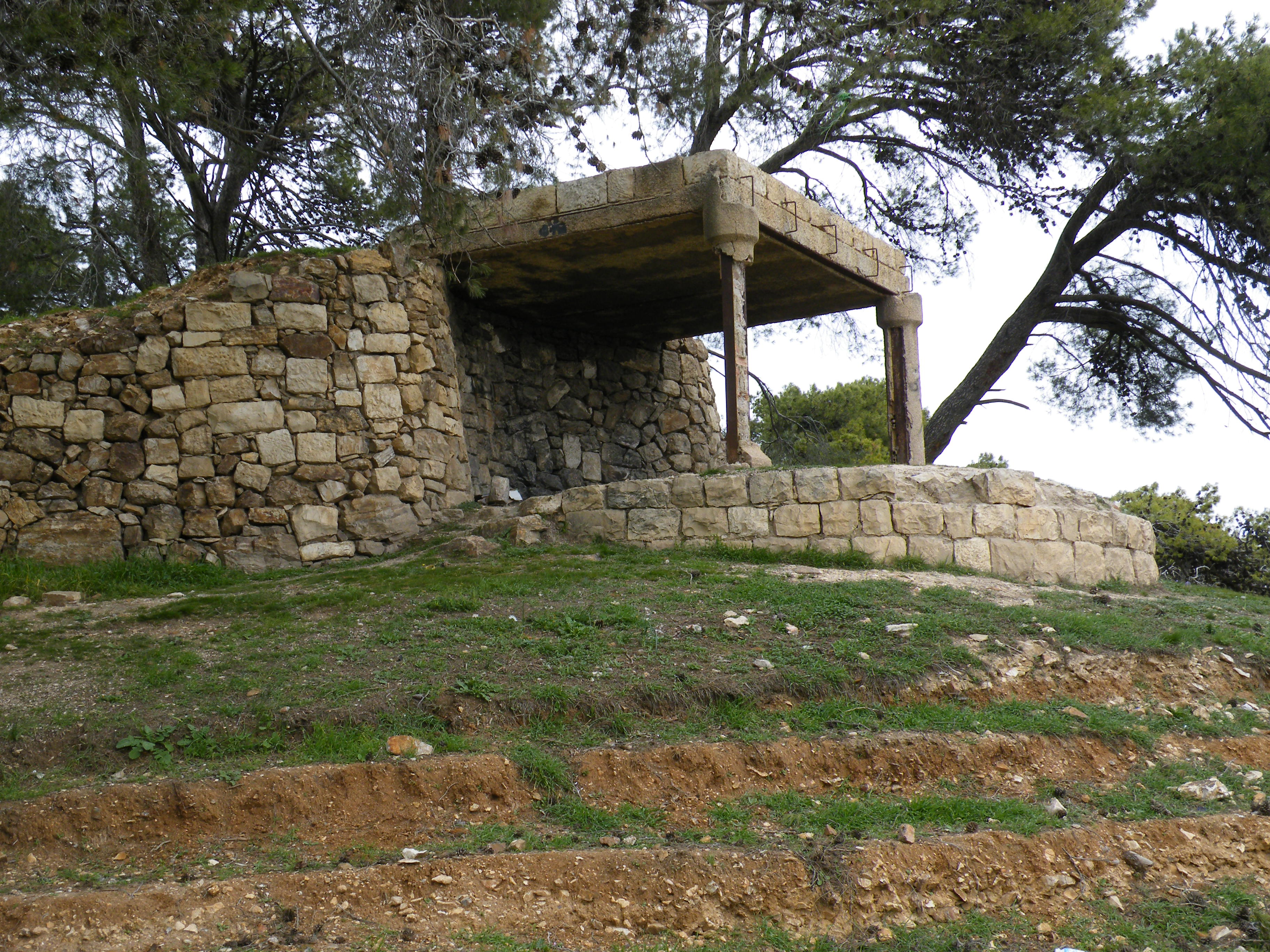 This blown-out Jordanian bunker, left over from the War of 1967 between Israel and Jordan, looks out towards the largest settlement in the West Bank, Ma'ale Adumim.